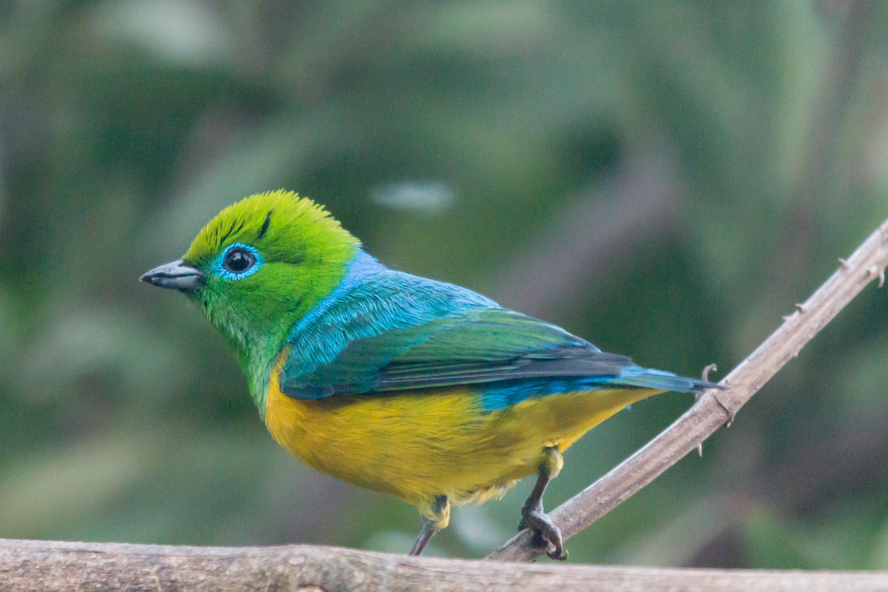 Probably my favorite picture from Argentina this past summer.